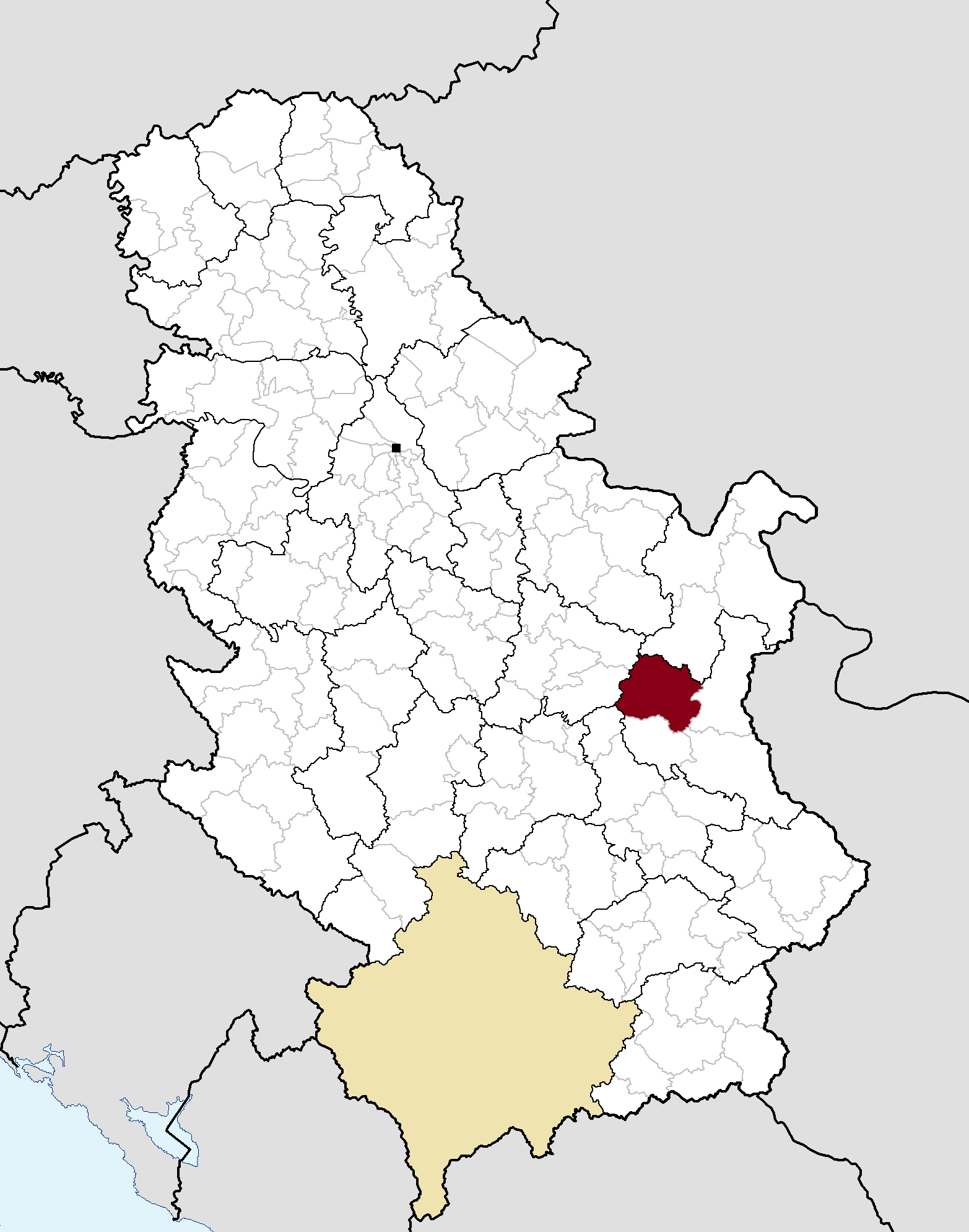 Municipal location in Serbia